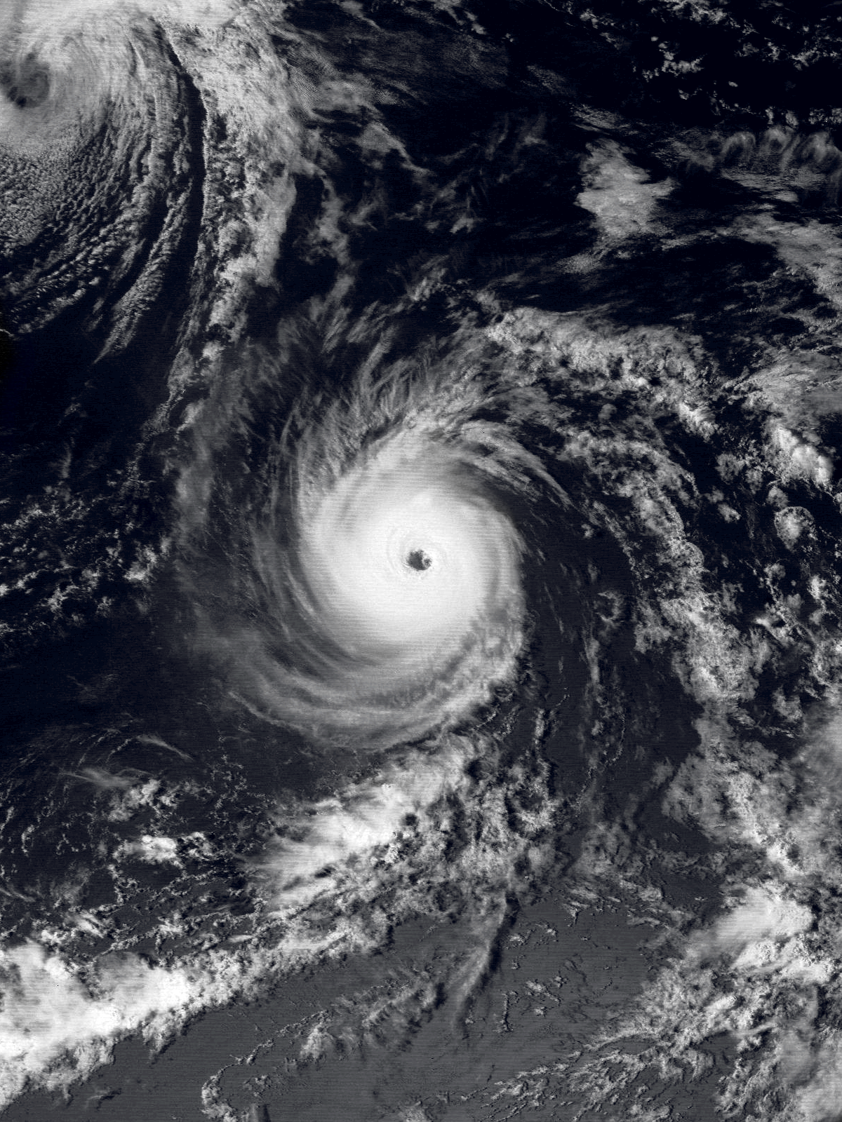 Hurricane Rick near peak intensity over the open Northeastern Pacific on September 9, 1985